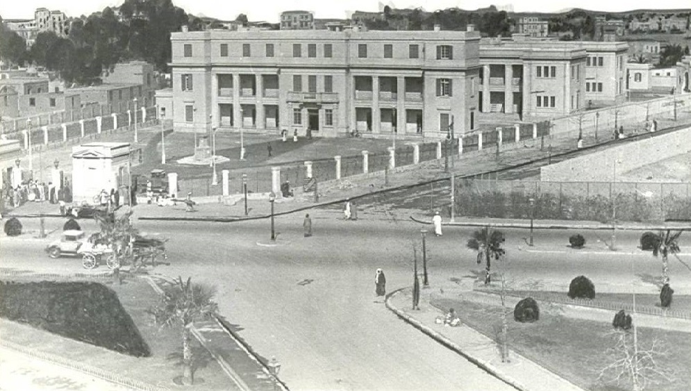 Demerdash Hospital old photo and establishment cermony circa 1930